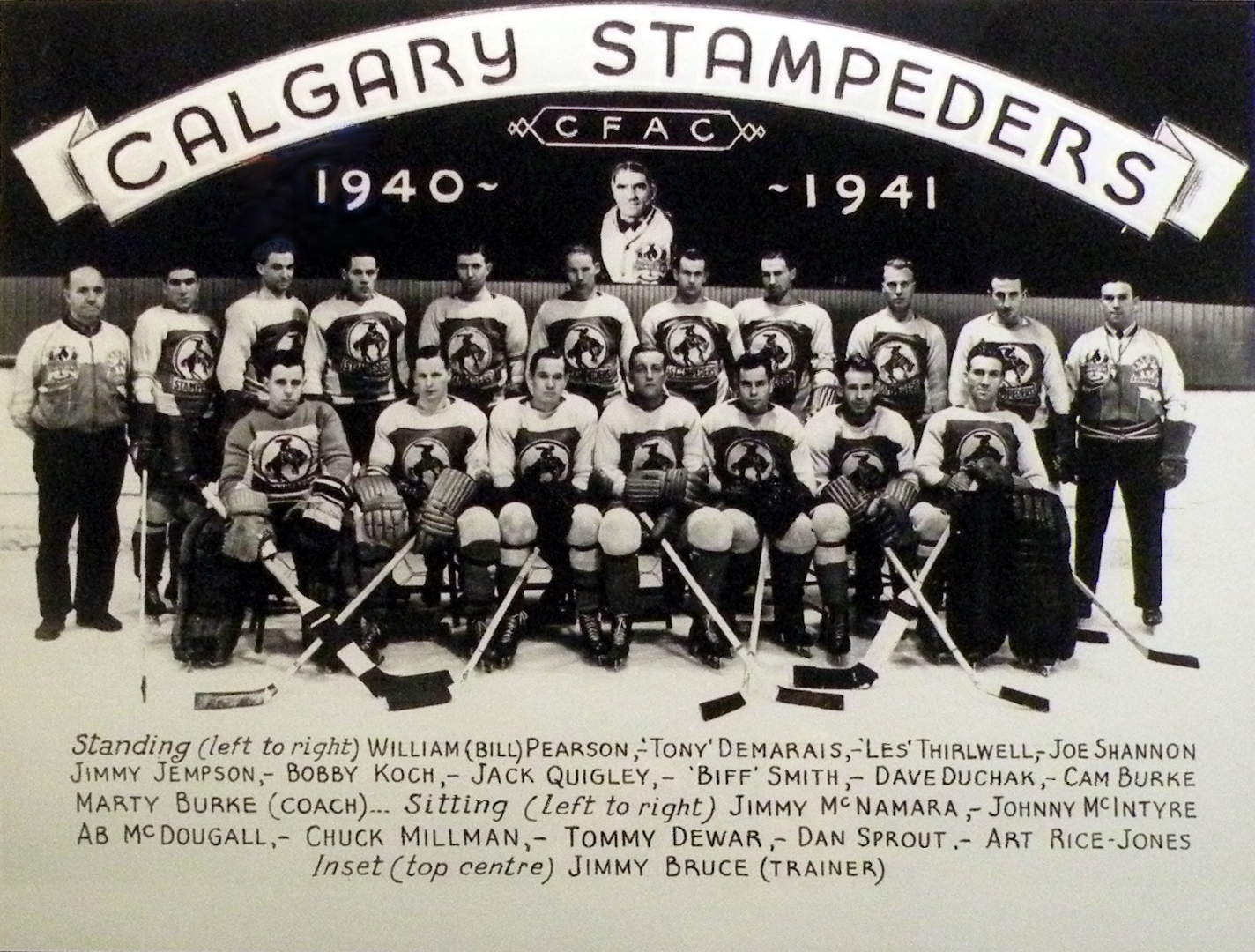 1940–41 team photo of the Calgary Stampeders hockey club, as seen on a historical display at the Pengrowth Saddledome in Calgary.